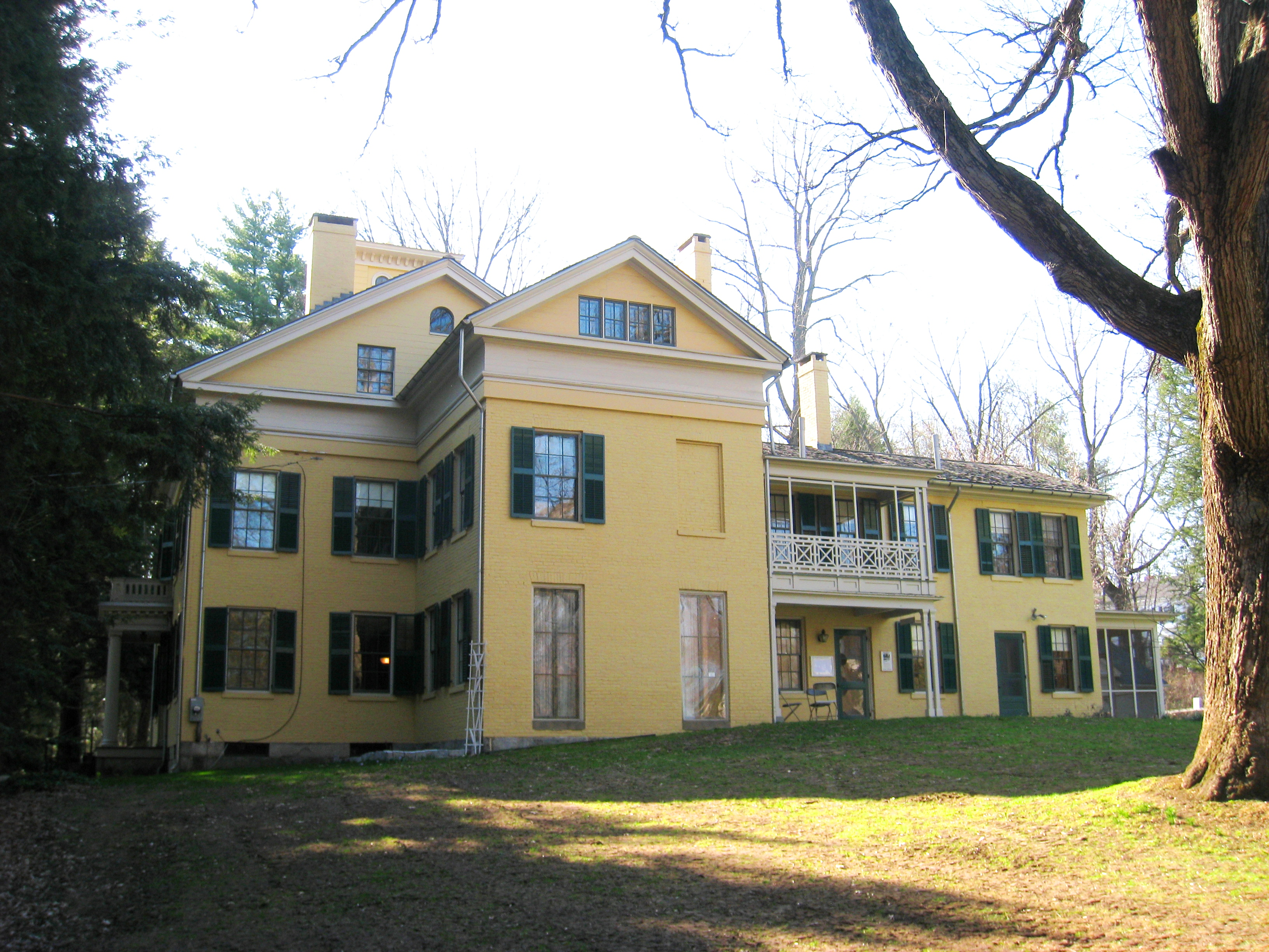 Emily Dickinson Museum, Amherst, Massachusetts - side view of Emily Dickinson's house.